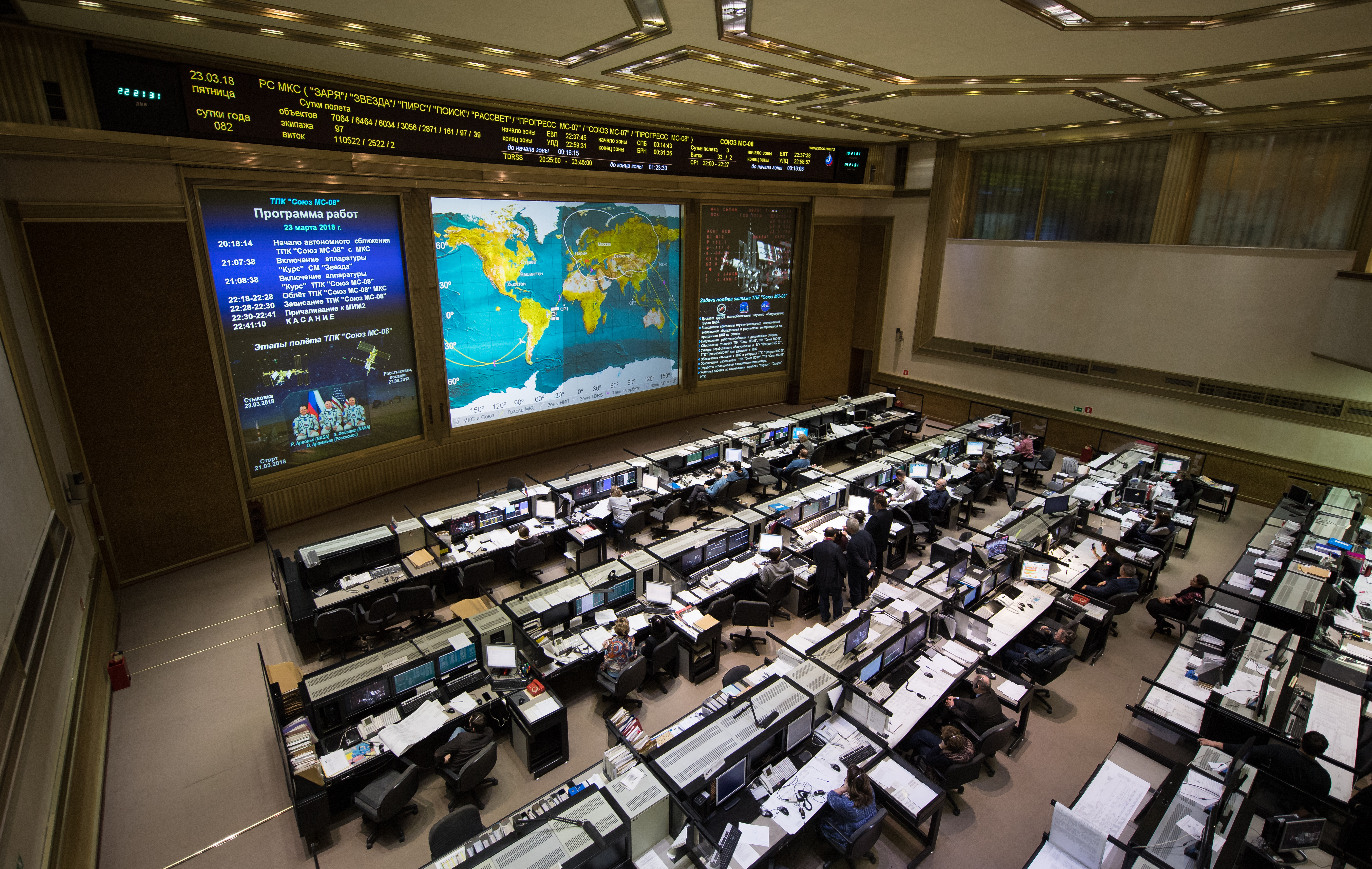 A live view of the International Space Station, as seen by cameras onboard the Soyuz MS-08 spacecraft with Expedition 55-56 crewmembers Oleg Artemyev of Roscosmos and Ricky Arnold and Drew Feustel of NASA, is seen on screens at the Moscow Mission Control Center as the spacecraft approaches for docking, Friday, March 23, 2018 in Korolev, Russia. The Soyuz MS-08 spacecraft carrying Artemyev, Feustel, and Arnold docked at 3:40 p.m. Eastern time (10:40 p.m. Moscow time) and joined Expedition 55 Commander Anton Shkaplerov of Roscosmos, Scott Tingle of NASA, and Norishige Kanai of the Japan Aerospace Exploration Agency (JAXA).